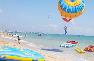 Tanjung Benoa Beach